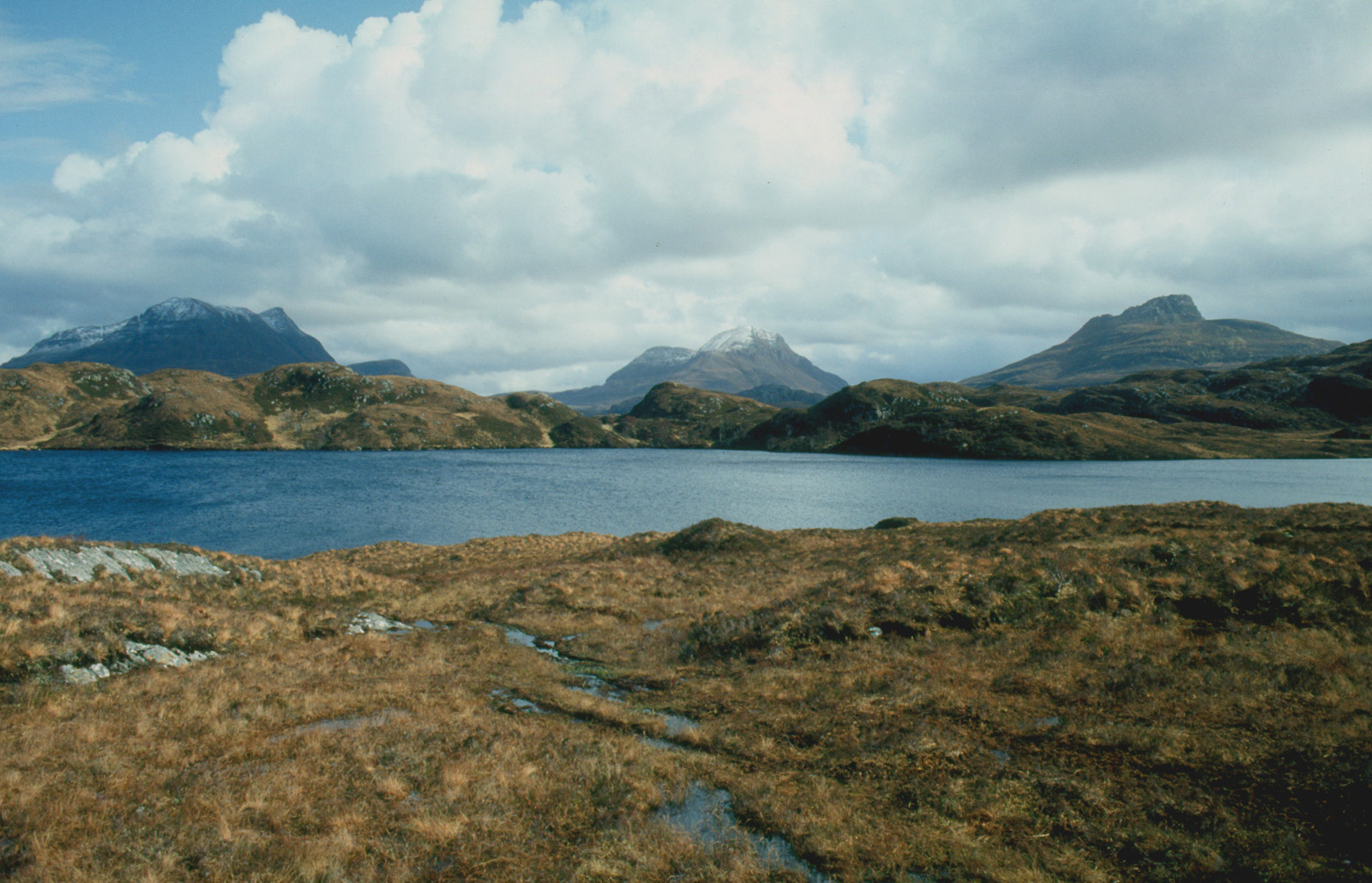 Northwest Highlands of Scotland, landscape scene between Altandhu and Achiltibuie